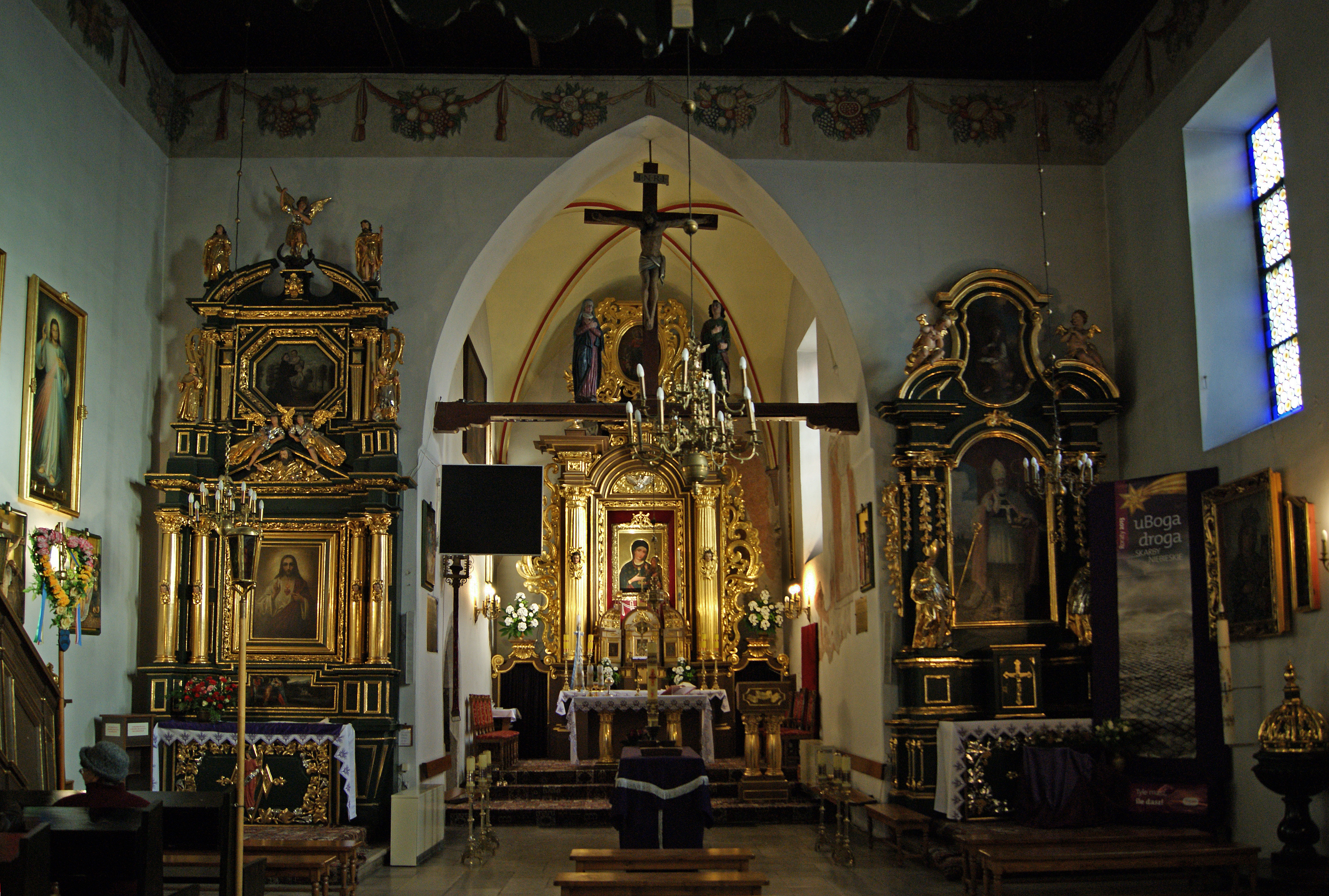 All Saints church (interior), Rudawa village, Kraków County, Lesser Poland Voivodeship, Poland